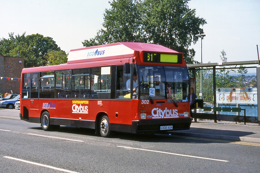 Dennis Dart 9SDL Carlyle adapted to use Liquified Natural Gas. Scanned from a Fujichrome 35mm slide.